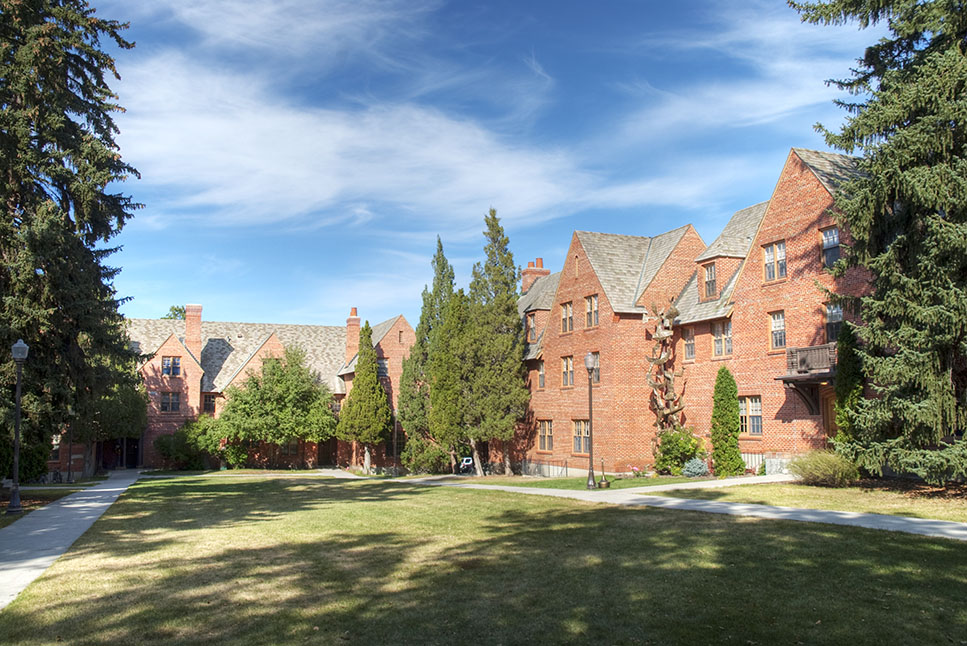 The Quads residence hall at Montana State University MSU photo by Kelly Gorham.